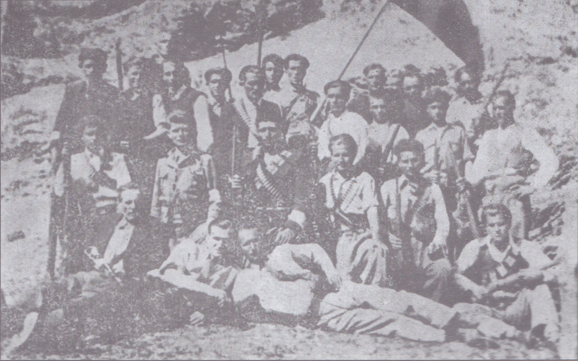 Kostur region cheta 1943